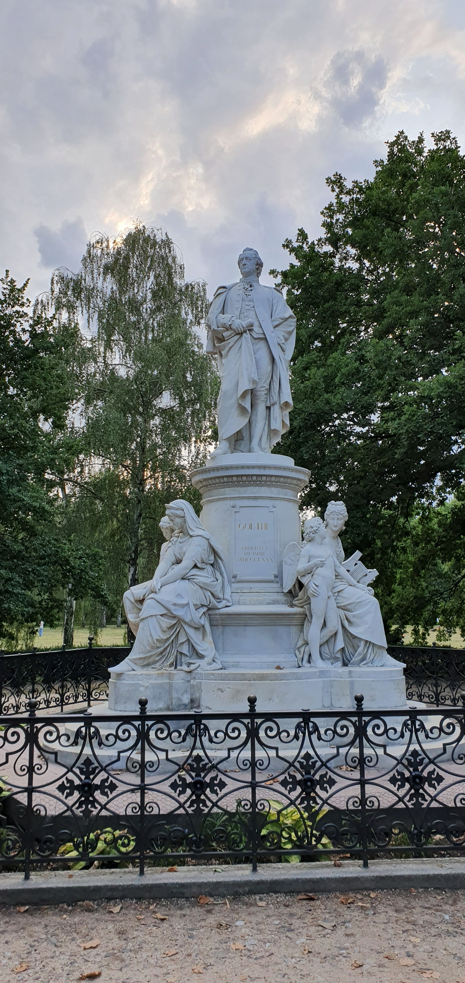 Goethe memorial (Berlin-Tiergarten)